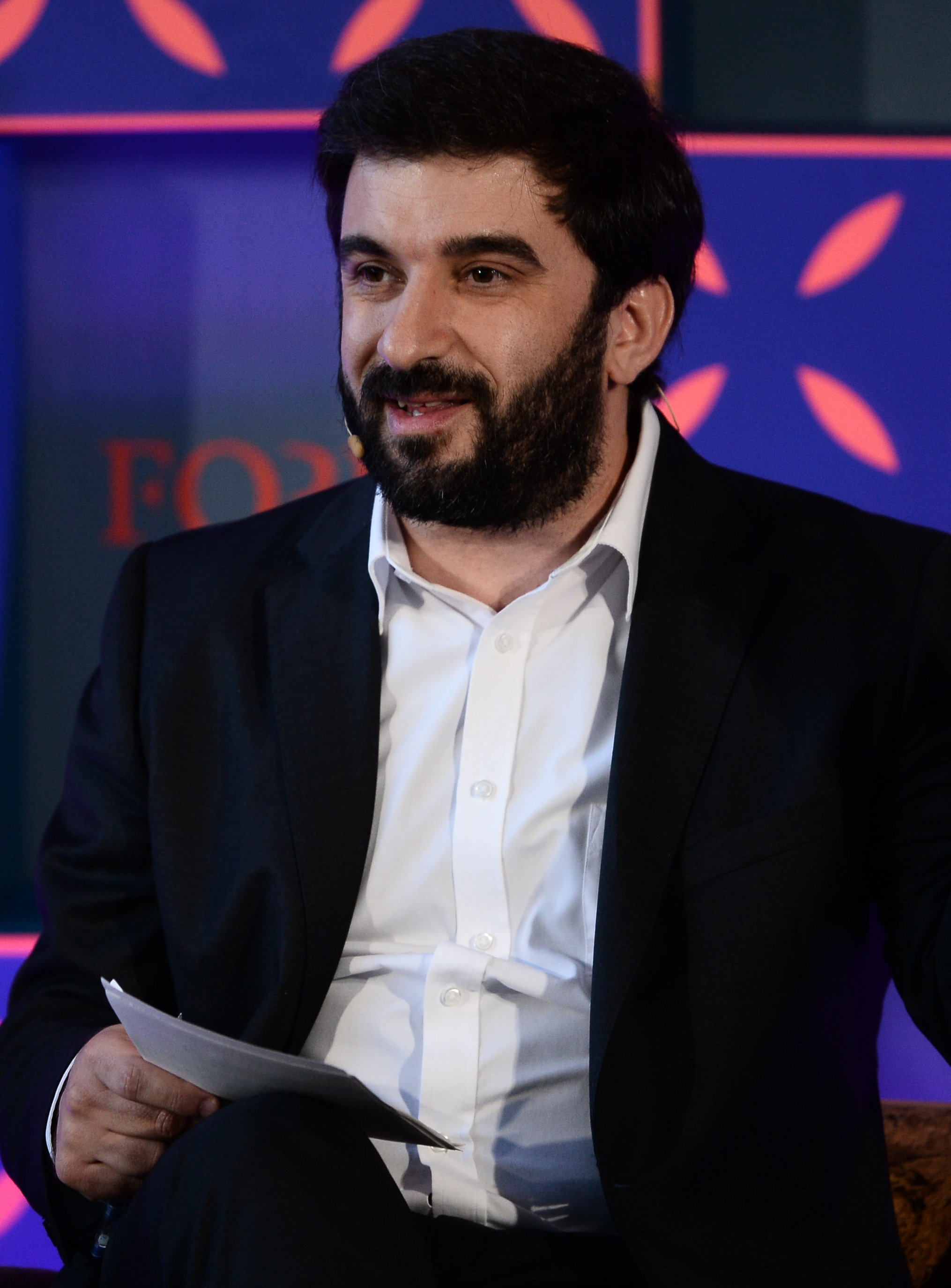 7 November 2017; Tiago Brandão Rodrigues, Minister of Education, Government of Portugal, on Forum Stage during the opening day of Web Summit 2017 at Altice Arena in Lisbon. Photo by Diarmuid Greene/Web Summit via Sportsfile